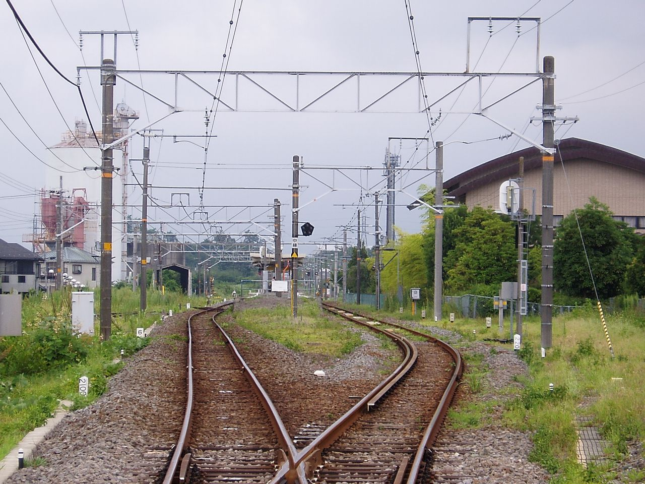 Inside of Shimosoga Sta. ,Central Japan Railway Co.